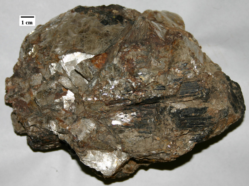 Pegmatite — containing lepidolite, tourmaline, and quartz. From the White Elephant Mine in the Black Hills, South Dakota. Collected in 1997, photographed, and uploaded by James Stuby.